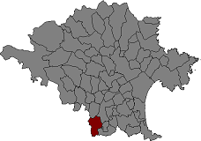 Location of Bàscara in Alt Empordà